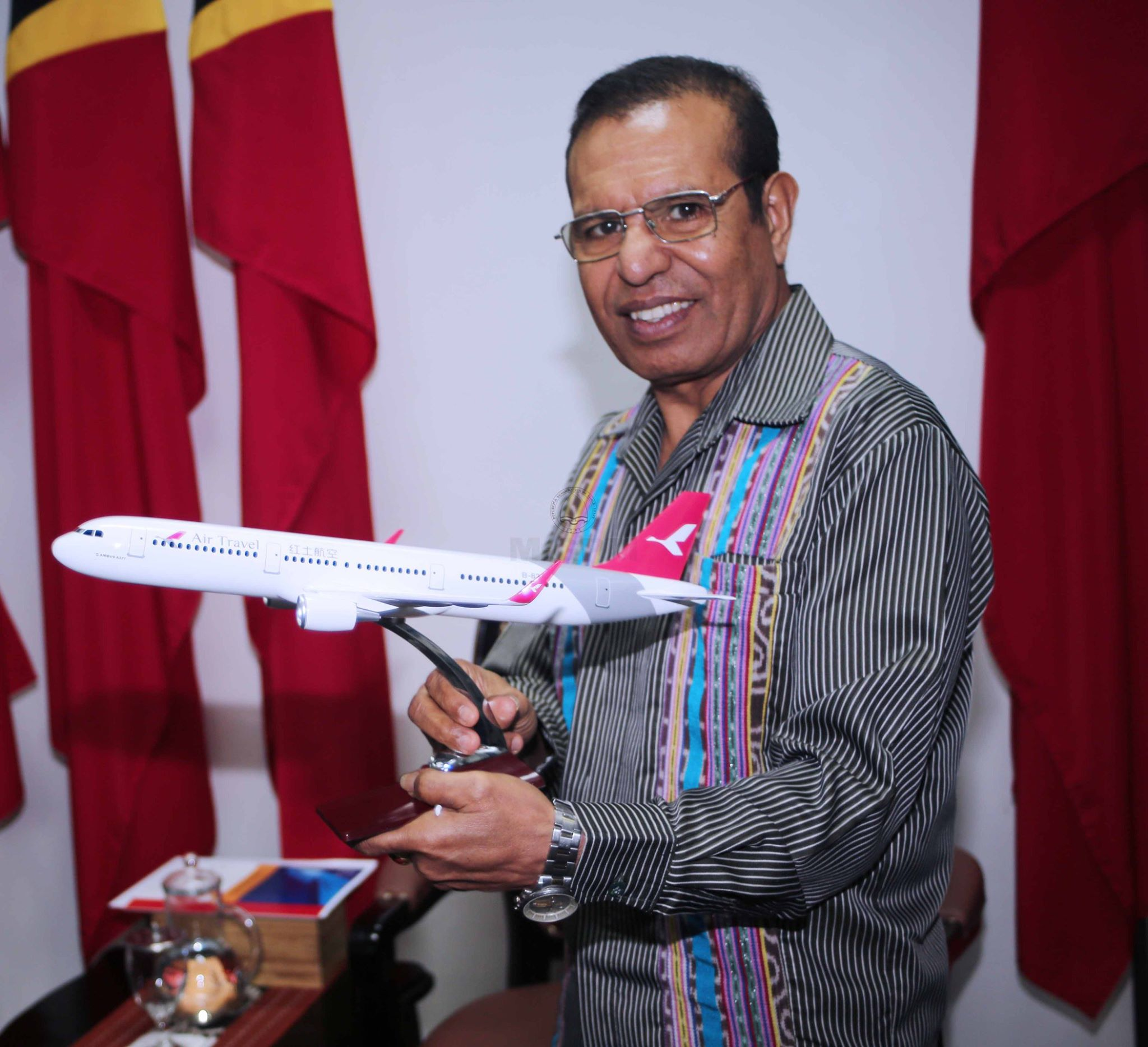 Osttimors Premierminister Taur Matan Ruak erhält als Geschenk ein Modell einer Maschine der Air Travel. Air Travel wird zusammen mit Air Timor die Route Dili – Hongkong bedienen.